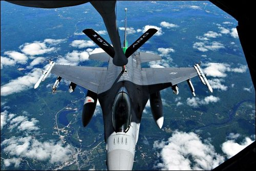 A Vermont F-16 geing refuled by a neibouring aircraft.